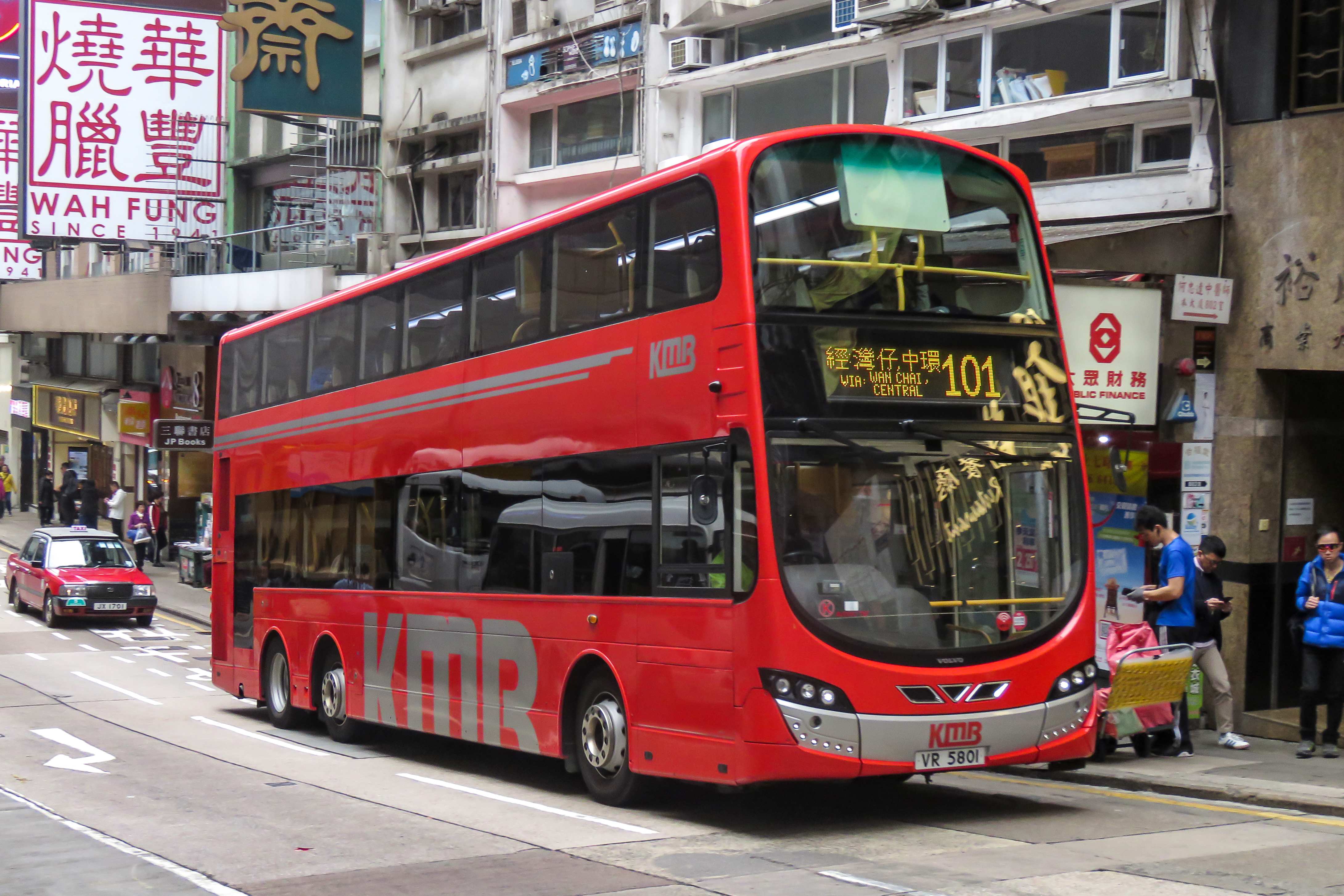 The very last AVBWU is seen without advertisement.